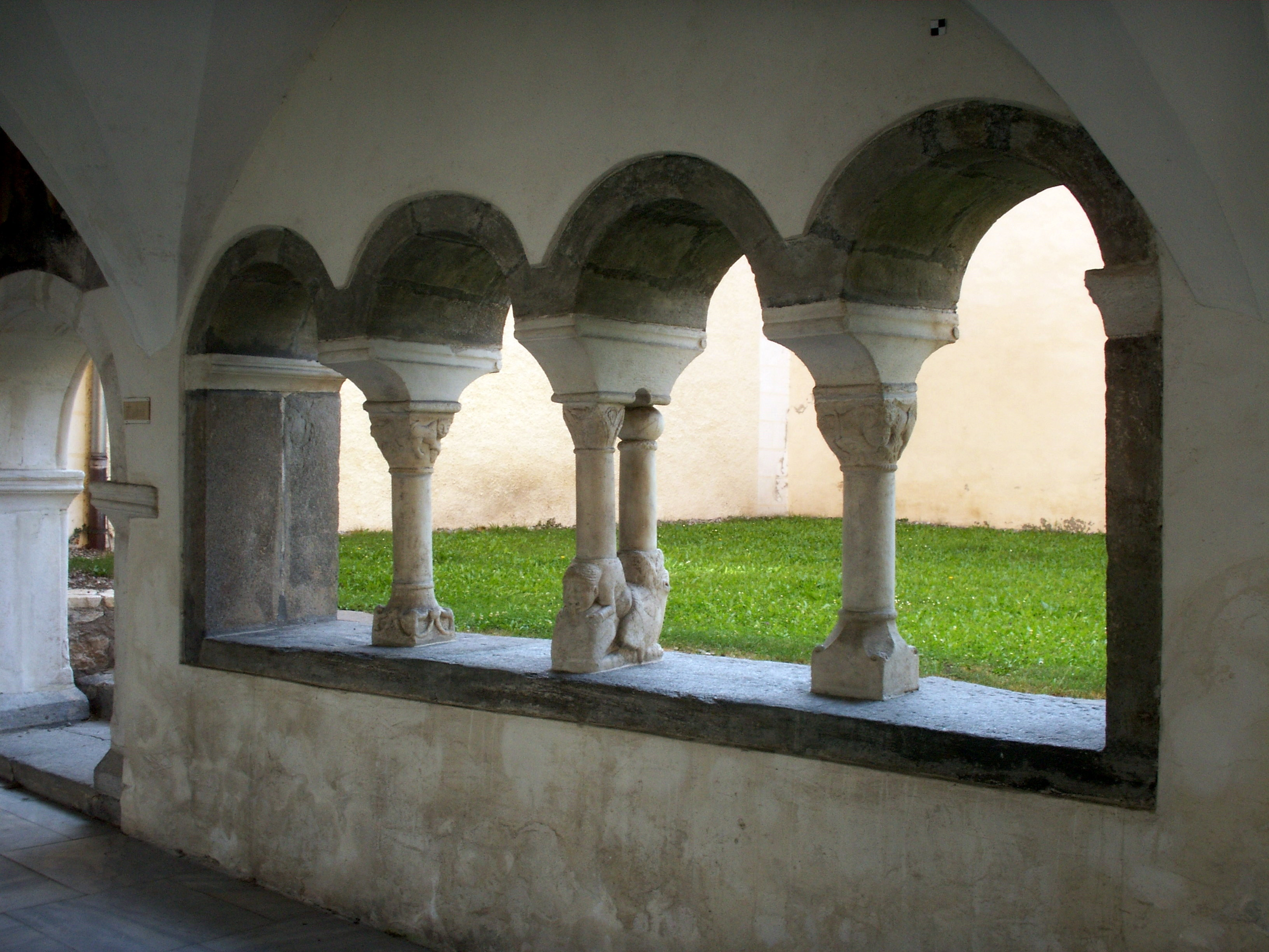 Detail of the romanesque cloister of Millstatt Abbey near Spittal an der Drau / Carinthia / Austria / EU. Southern quadripartite arcades.